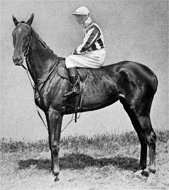 Perola as a two-year-old, winner of the 1909 Oaks Stakes and 1908 Exeter Stakes.